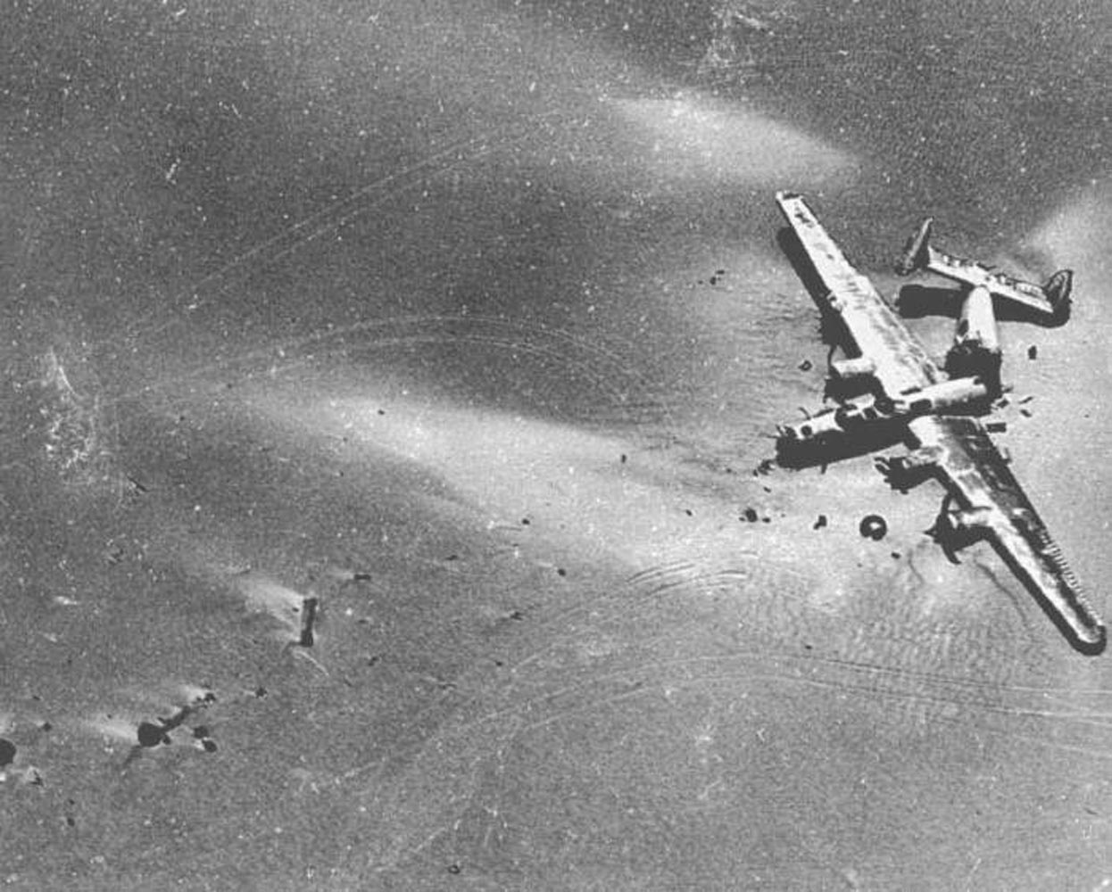 Wreckage of the World War II B-24 "Lady B Good" in the Libyan Desert, about 1957